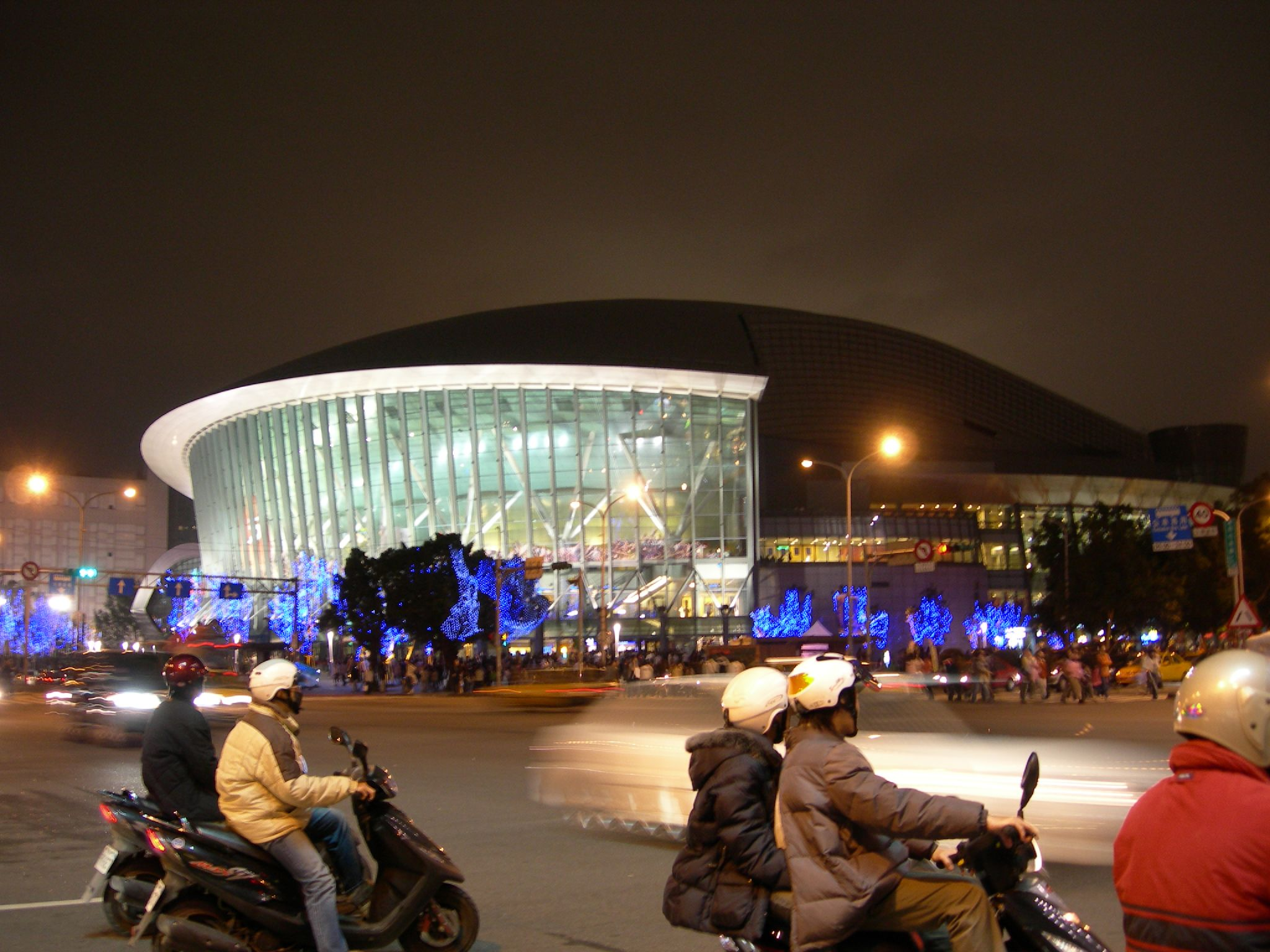 Taipei Arena at night.